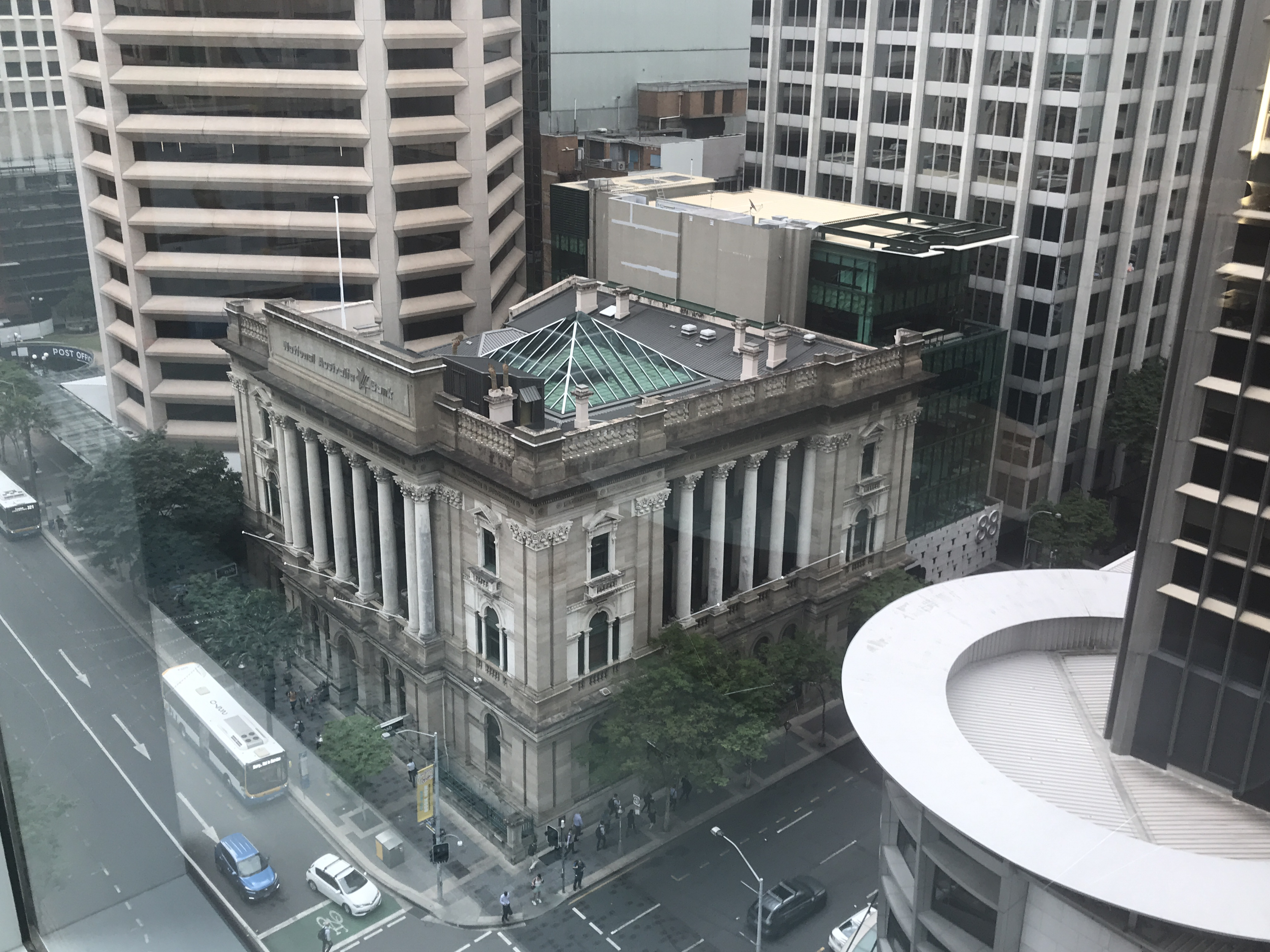 National Australia Bank (308 Queen Street), seen from above from 345 Queen Street, 2020